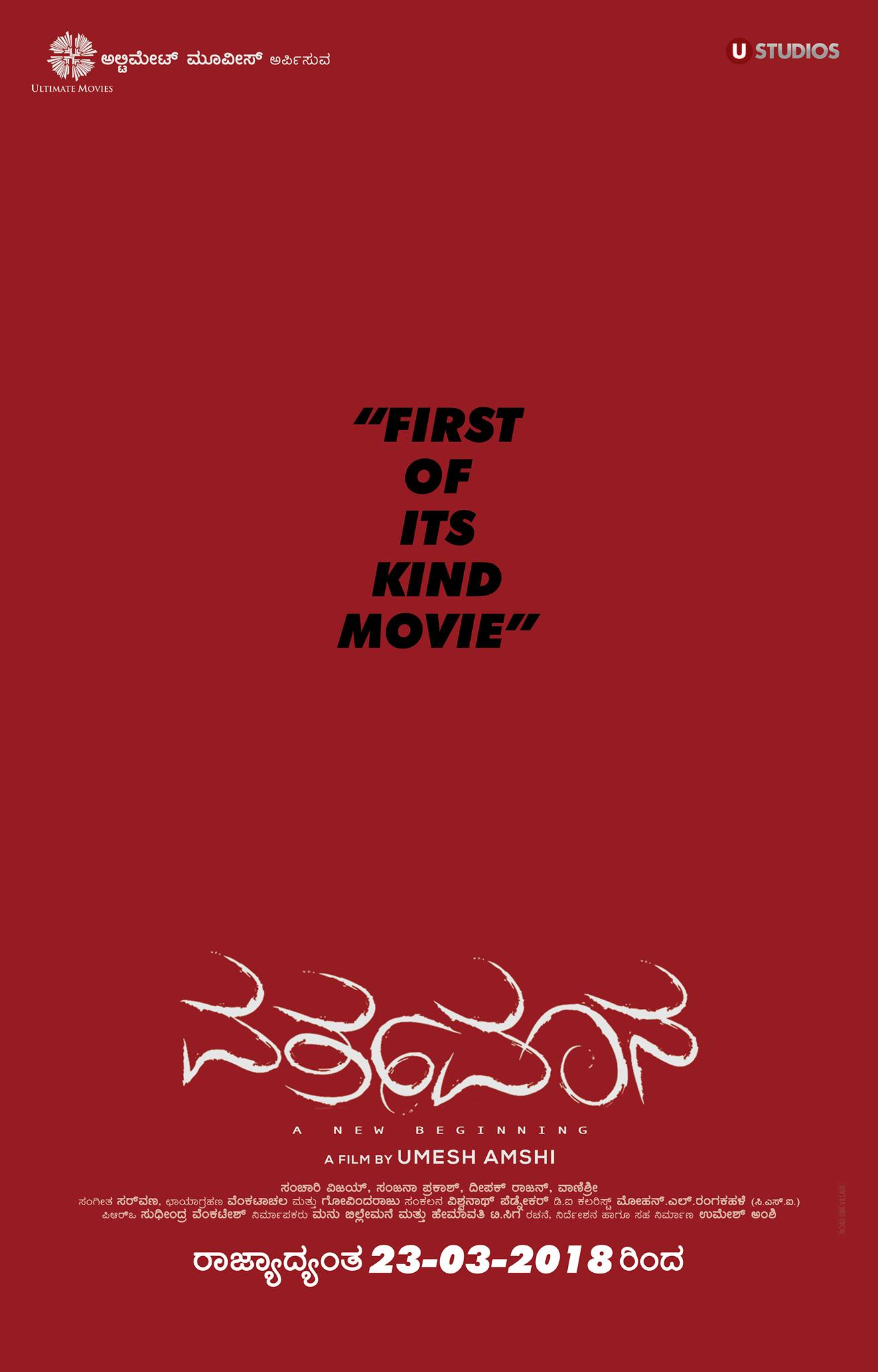 Directed by Umesh Amshi Produced by Umesh Amshi,Manu Bellimane,Hemavathi T.Siga Written by Umesh Amshi Starring Sanchari Vijay Sanjana Prakash Deepak Music by Sarvanaa Cinematography Govind and Venkatachala Edited by Vishwanath Production company Ultimate Movies Country India Language Kannada